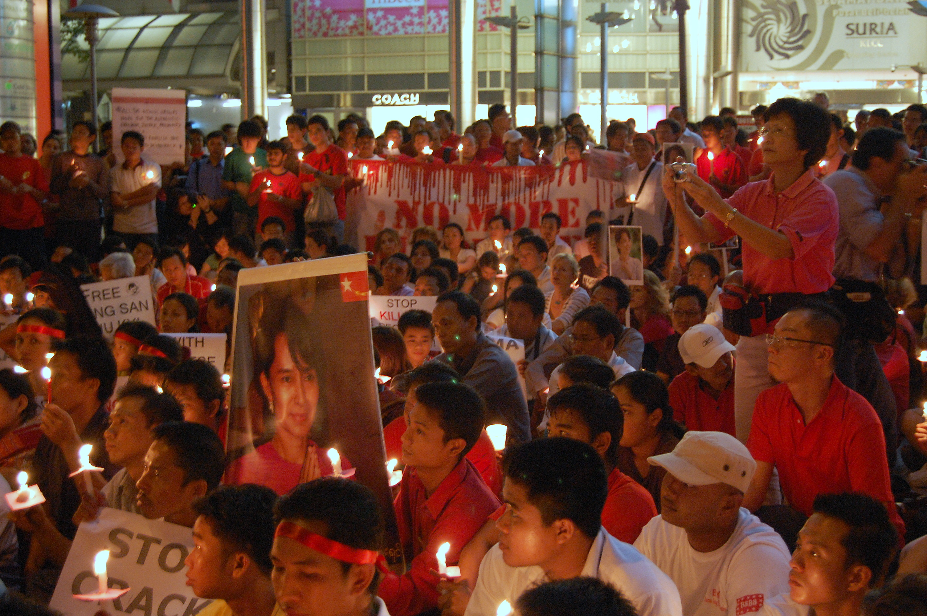 By Mohd Hafiz Noor Shams; User:__earth. A vigil for Burma in front of the Petronas Twin Towers. October 5 2007. For further description, kindly go to my blog.